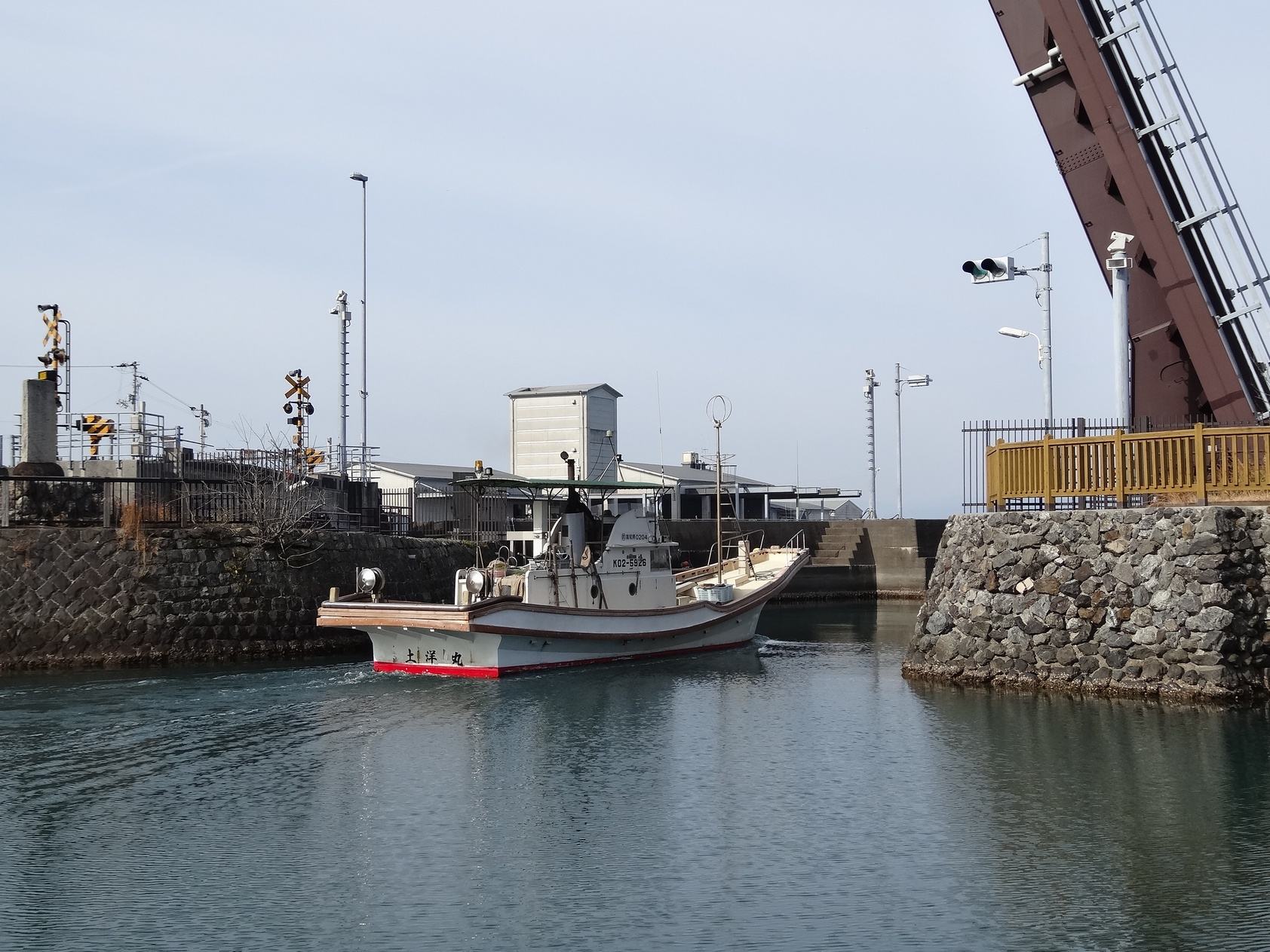 Tei Drawbridge (Yasu-cho, Konan City, Kochi Prefecture, Japan)